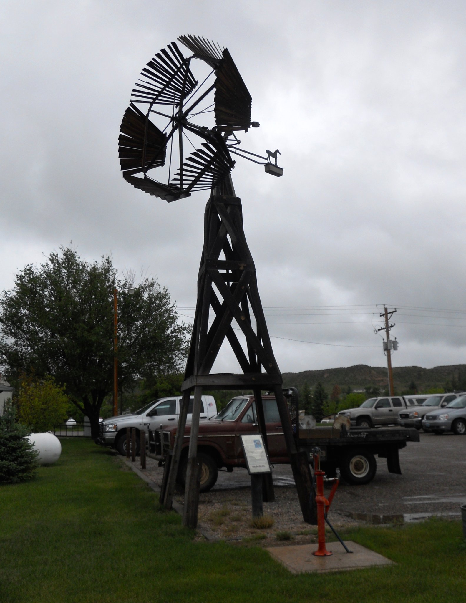 Chugwaters Lasting Legacy This windmill was funded and erected as a lasting legacy for Wyoming's Centennial Celebration (1900-1990) by the Chugwater Historical Unity Group (CHUG), Chugwater Economic Development (Ched), the town of Chugwater and the Aid of a grant from the Wyoming Centennial Commission.) The Homesteaders of the early 1900's saw this area from an open-range livestock area to a combination farming/ranching community. One of the first requirements of the new settlers was water. The Windmill proved to be the most practical of supplying water to for domestic and livestock use. Soon every building site had a windmill of some type standing tall above the other buildings. Many of these mills were of the wooden-wheel vaneless variety. Of this type mill, the most popular in this area was Dempster, manufactured in Beatrice Nebraska from 1900 to mid 1920's. It is easily identified by the cast-iron horse on the tail.The horse along with the weight box counter balanced the weight of the wheel. The vaneless mills were unique in that the tail pointed into the wind and the wheel section opened and closed maintaining a constant pumping speed according to the velocity of the wind. There were no gears of any kind on these mills. Pumping action was by direct stroke pitmon stick. The major portion of the mill "A Dempster #4" was salvaged from the Edward Come homestead approximately 2 miles northeast of Chugwater. It was restored by John Baker and Jim Collins of Chugwater and errected in 1991by members of Chug for Wyoming's Centenial.